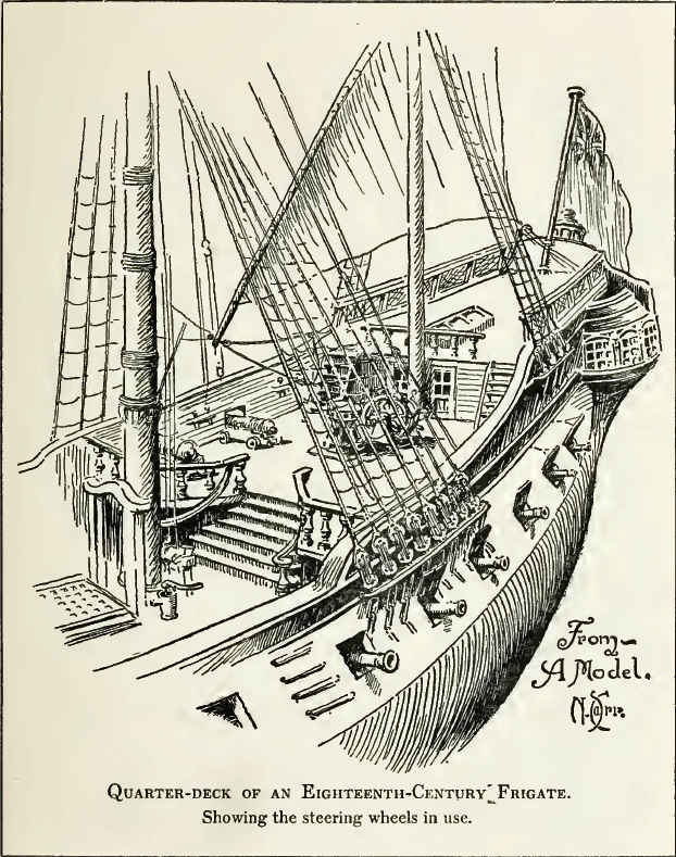 Illustration of the Quarter deck of an 18th century frigate.